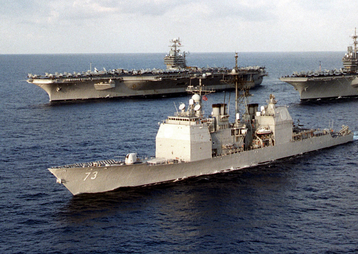 The U.S. Navy guided missile cruiser USS Port Royal (CG-73) steams alongside the aircraft carriers USS Nimitz (CVN-68) and USS Independence (CV-62) during the final stages of exercise Valiant Blitz '97, off the coast of Yokosuka, Japan, on 25 September 1997. "Valiant Blitz" was designed to provide an opportunity for the carriers to demonstrate power projection through bilateral flight operations.